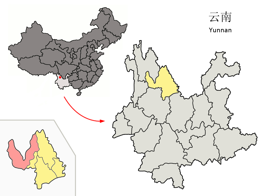 Location of Yulong County (pink) and Lijiang prefecture (yellow) within Yunnan province of China Map drawn in september 2007 using various sources, mainly : Yunnan province administrative regions GIS data: 1:1M, County level, 1990 Yunnan Counties map from